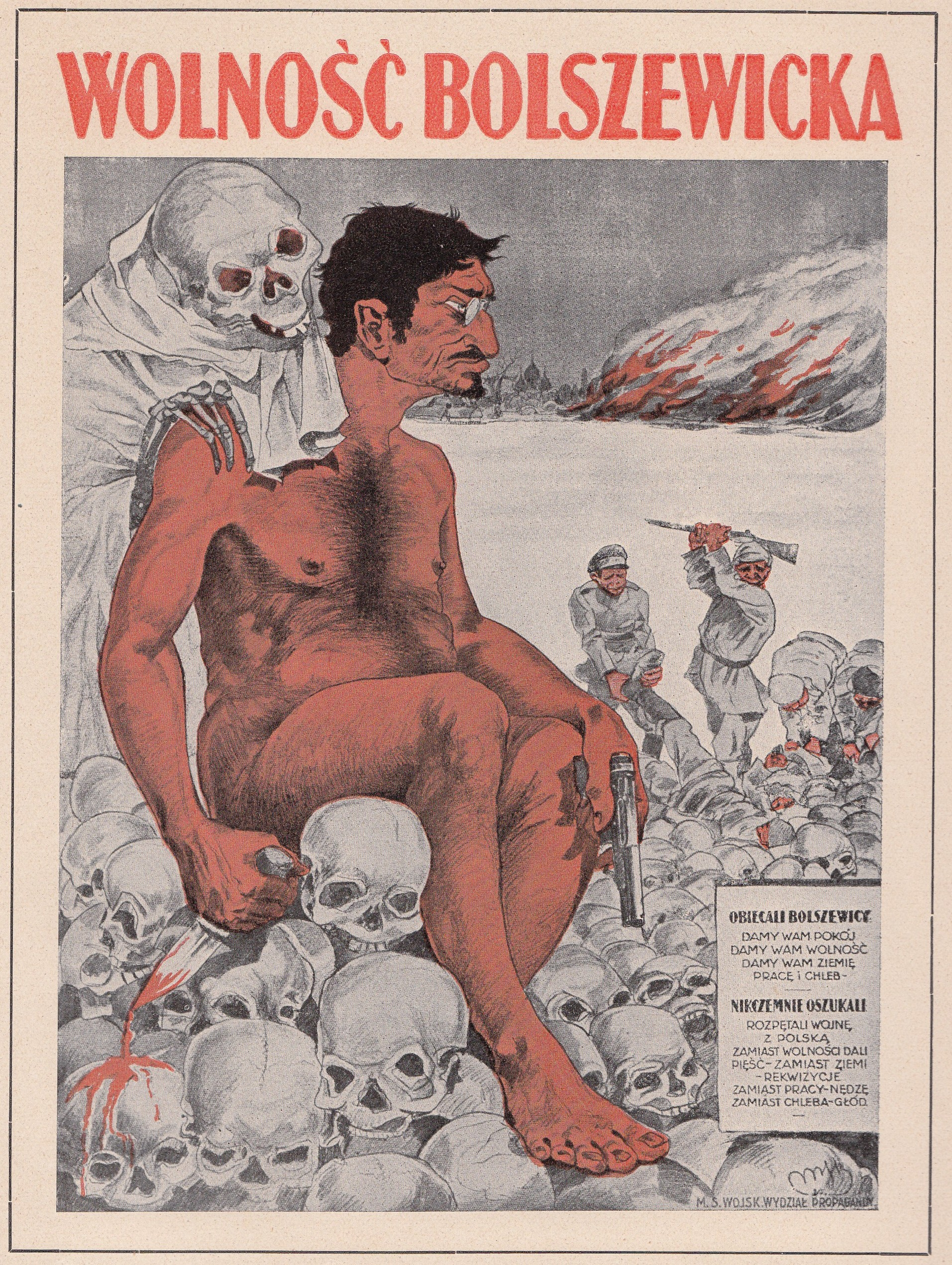 Trotsky depicted by Polish propaganda as a blood-soaked Bolshevik during the Polish-Russian war of 1920